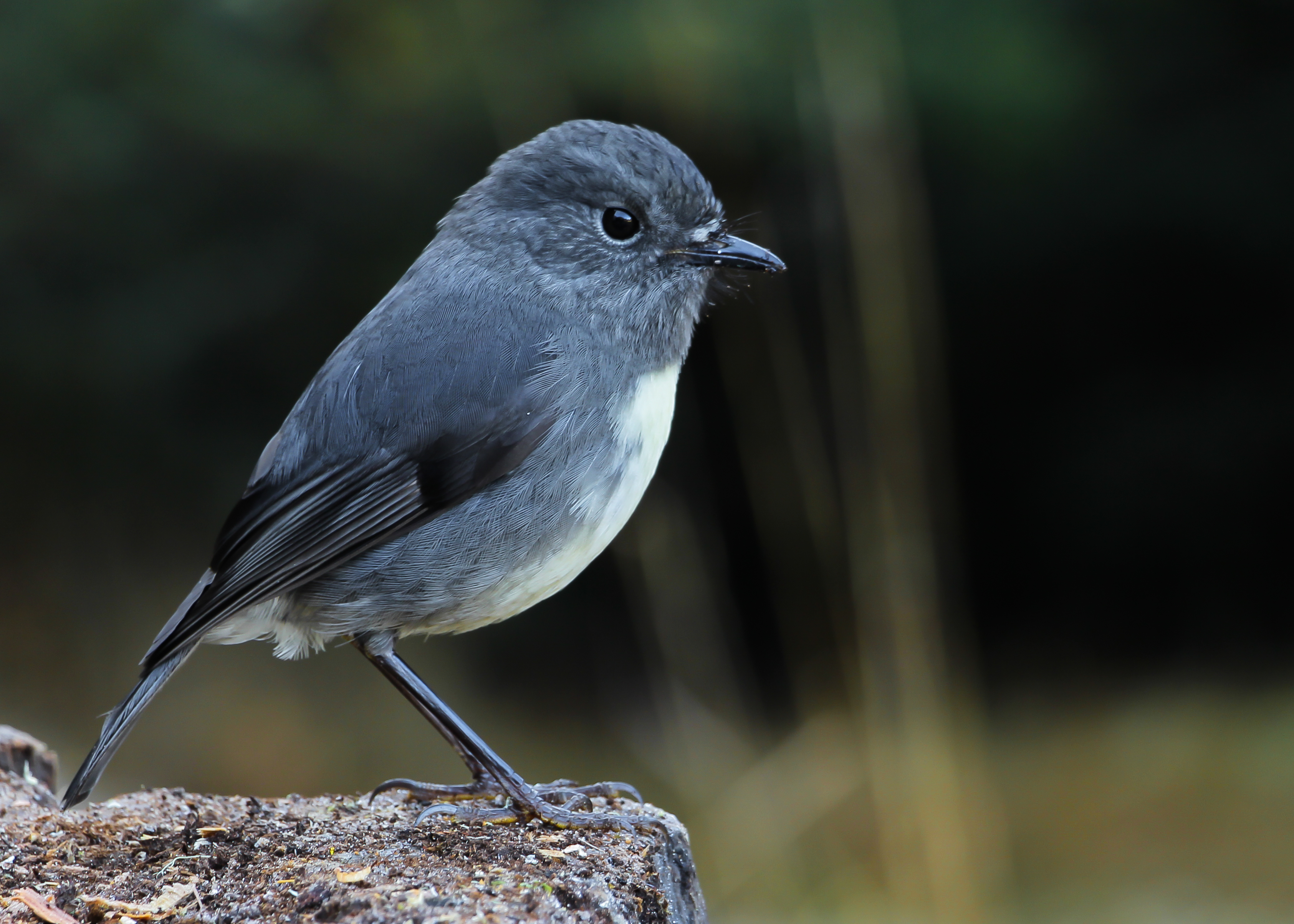 South Island robin (Petroica australis) in Lewis Pass. New Zealand